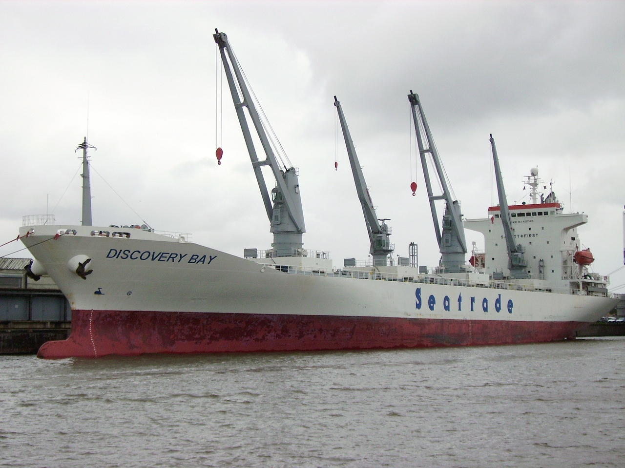 The reefer ship "Discovery Bay" of Seatrade in the port of Bremerhaven, Germany. IMO number: 9143740. Ship details (external website)